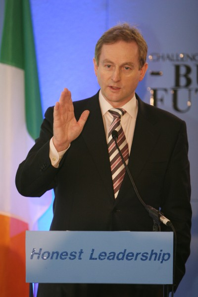 Enda Kenny speaking at the YFG national conference